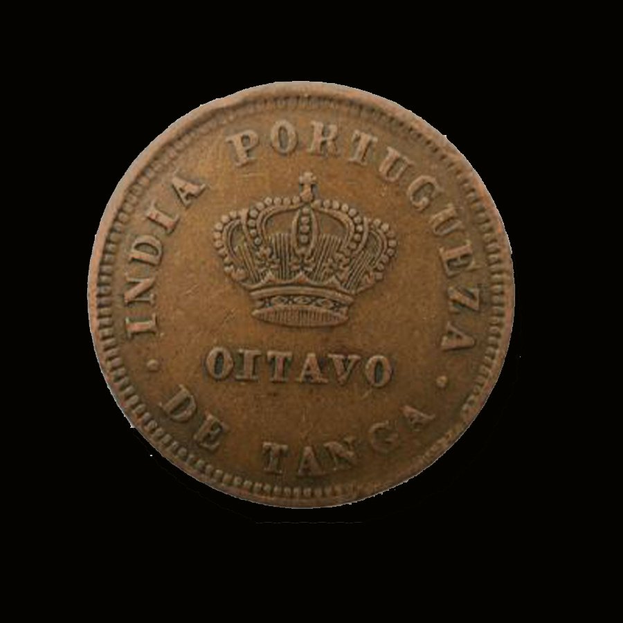 INDIA PORTUGAL COIN